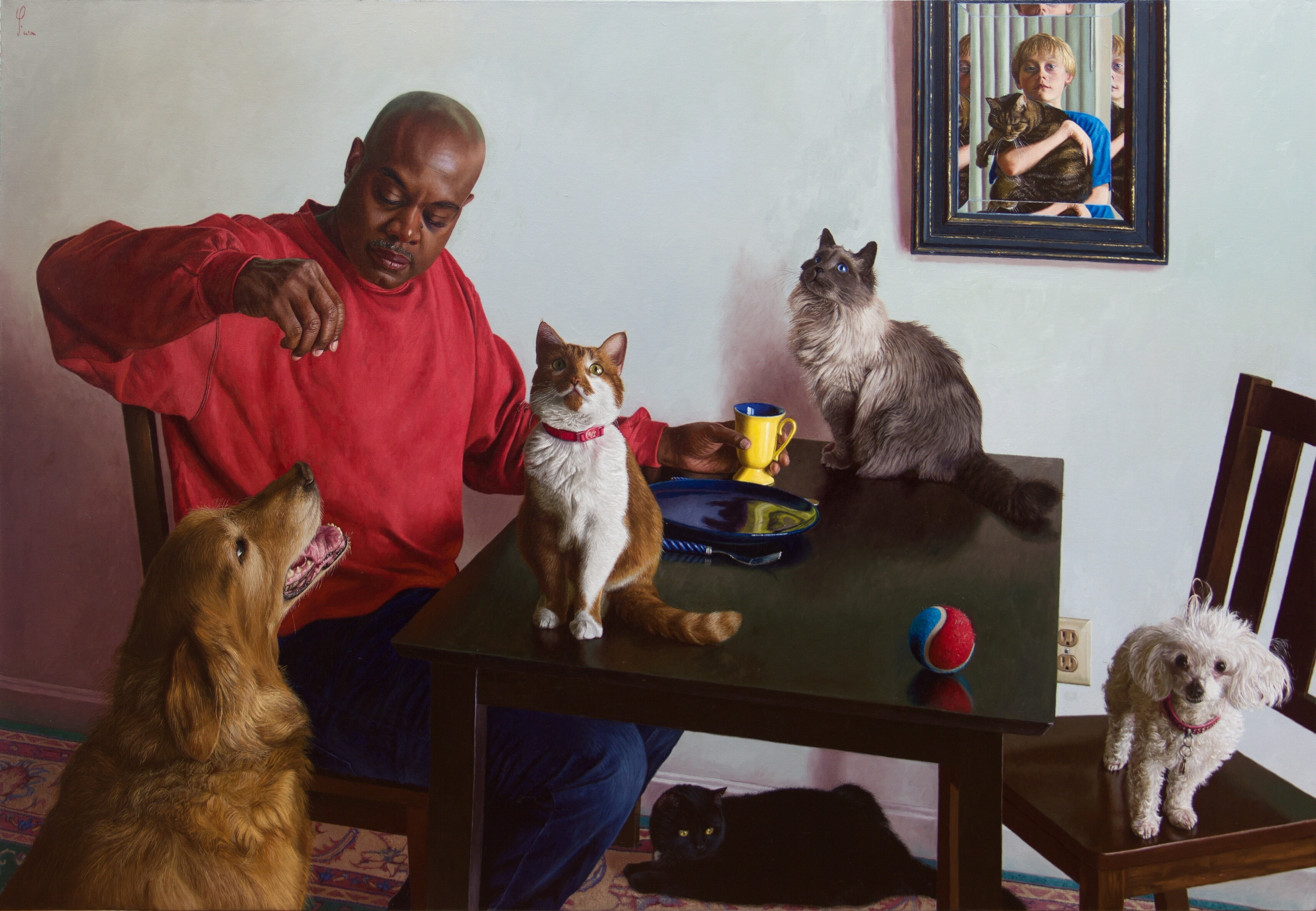 Painting of Wim Heldens' "Cat's & Dogs".